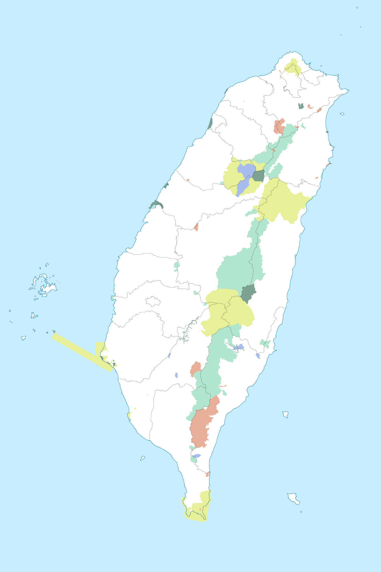 Protected areas of Taiwan 自然保留區 (Nature Reserves) 國家公園 & 國家自然公園 (National Parks & National Nature Parks) 野生動物保護區 (Wildlife Refuges) 野生動物重要棲息環境 (Major Wildlife Habitats) 自然保護區 (Forest Reserves)